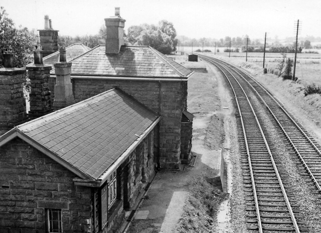 Berrington & Eye station (remains). View southward, towards Hereford etc.: ex-GW&LNW Joint (Shrewsbury & Hereford) Welsh Marches main line. (See also SO4963 : Berrington & Eye Station (remains)). The station was closed to passengers 9/6/58, to goods 4/1/60, but the line is very much still alive.